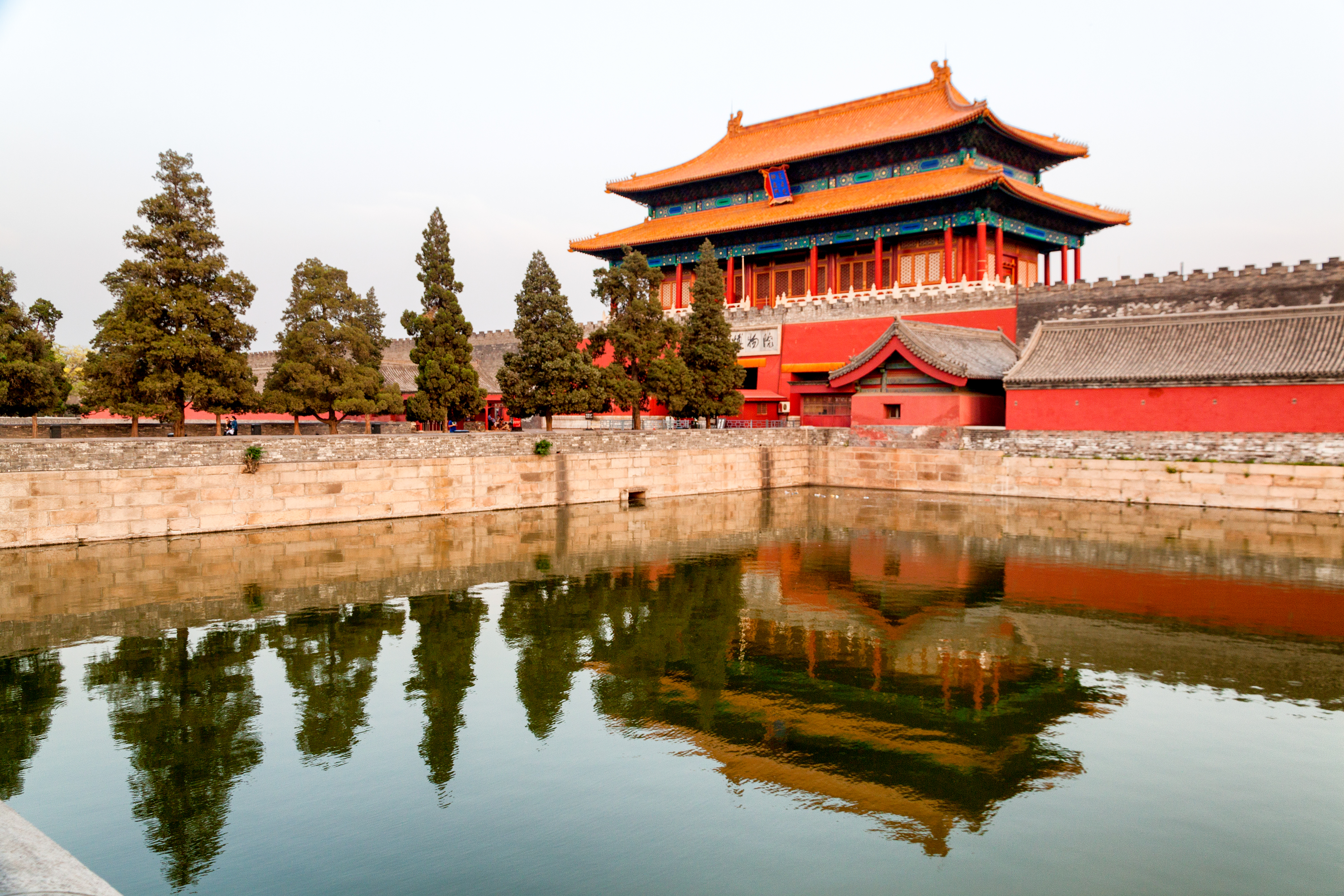 中文（中国大陆）: The Gate of Divine Might in Beijing, China, photo by Chen Yihan